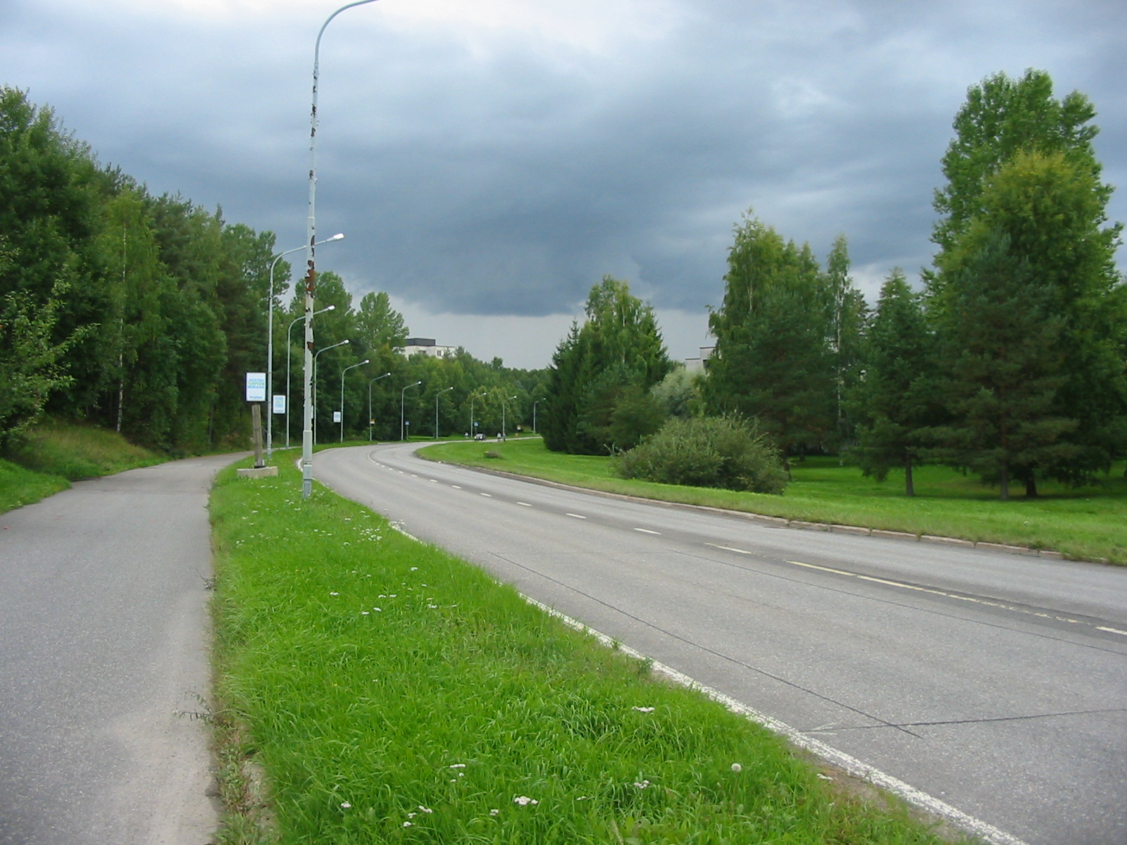 Suikkilantie (connecting road 1851) in Ruohonpää, Turku, Finland